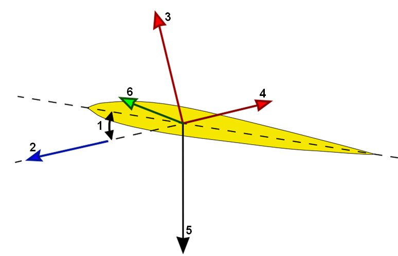 Lift force, sample for all language